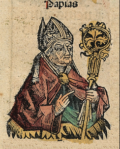 Detail from the Nuremberg Chronicle, showing Papias